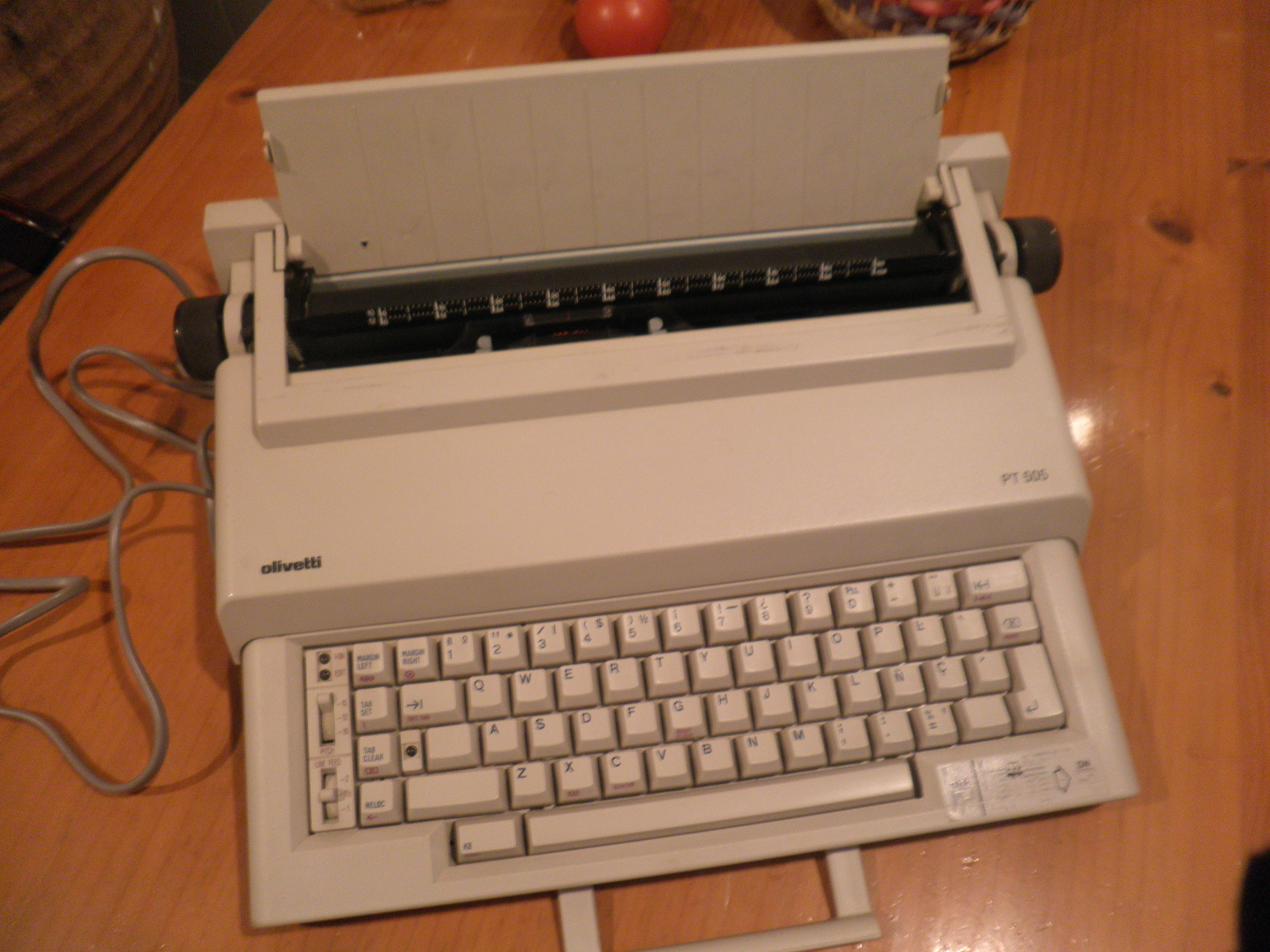 Olivetti P505 electronic typewriter.